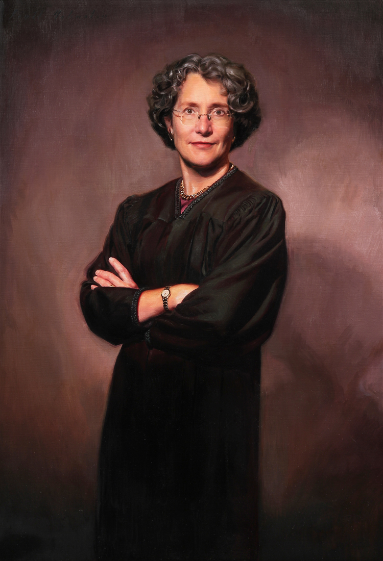 Official oil portrait art by Scott Wallace Johnston of Judge Claudia Wilken